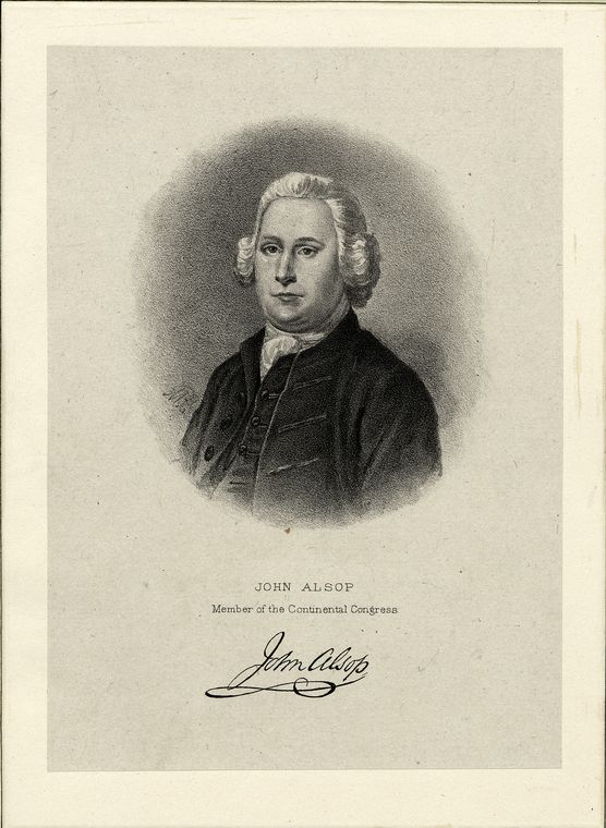 John Alsop, Delegate to Continental Congress from New York